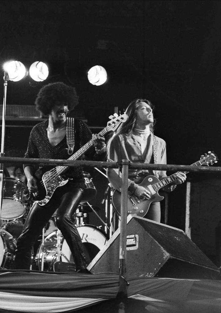 Phil Lynott & Scott Gorham of the Irish rock band, Thin Lizzy at Pinkpop festival; 1978